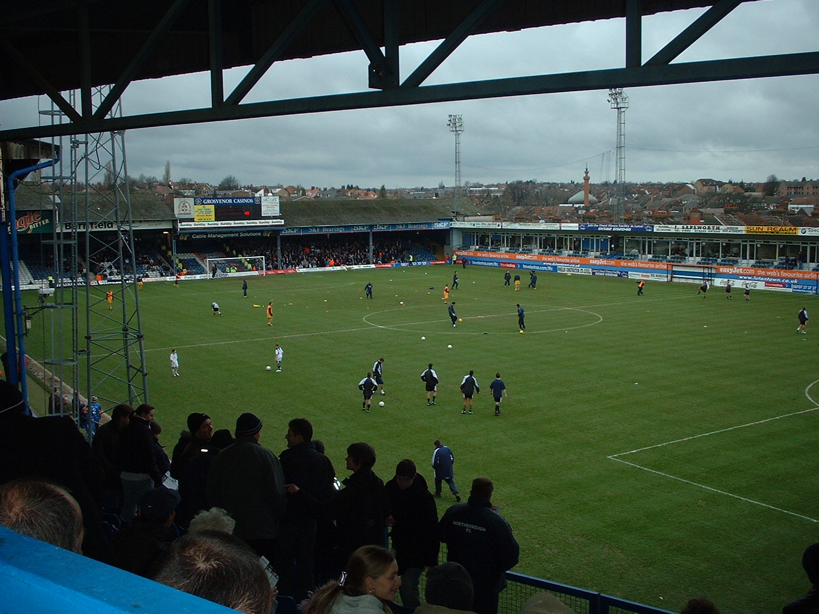 Picture taken of Kenilworth Road from Luton Town's home fixture against Tranmere Rovers during the 2004/05 season.